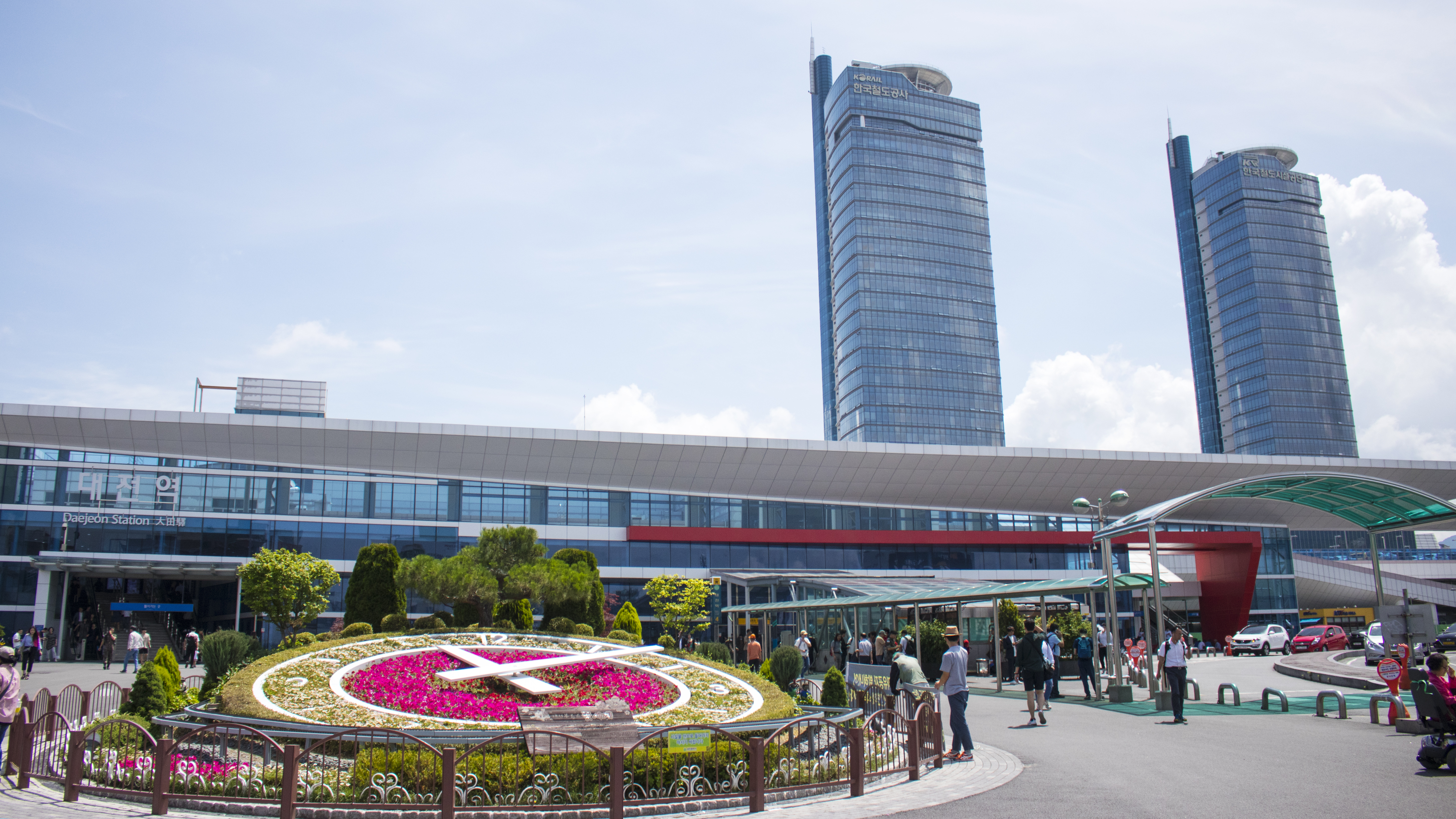 Daejeon Station building from west square.